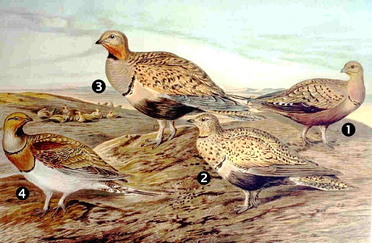 (1) Pterocles exustus - Ganga à ventre brun - Chestnut-bellied - SandgrouseWüstenflughuhn (2) female Pterocles orientalis - Ganga unibande - Black-bellied Sandgrouse - Sandflughuhn (3) male Pterocles orientalis - Ganga unibande - Black-bellied Sandgrouse - Sandflughuhn (4) Pterocles alchata - Ganga cata - Pin-tailed Sandgrouse - Spießflughuhn